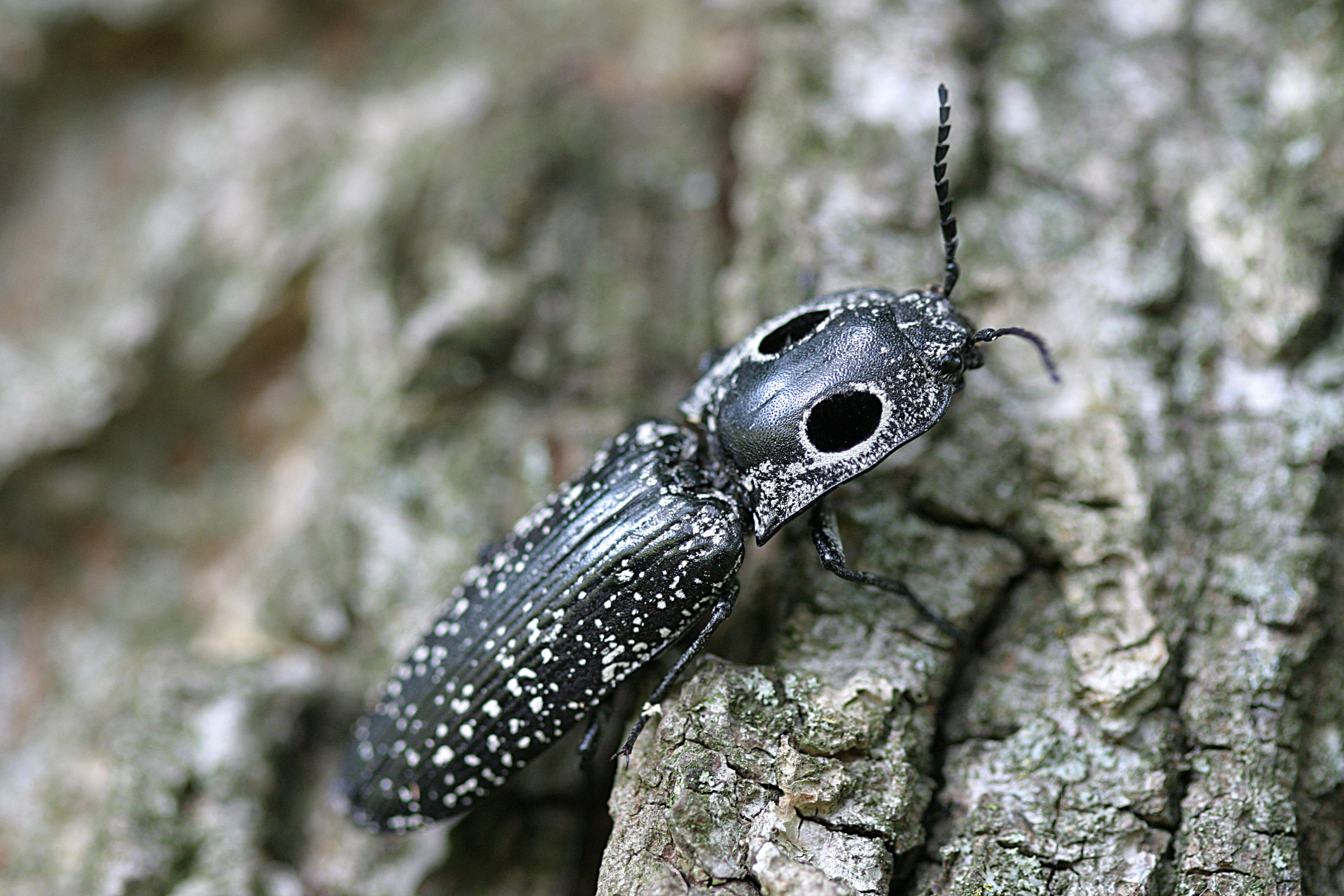 Eyed click beetle Alaus oculatus, Poolesville, Maryland, USA